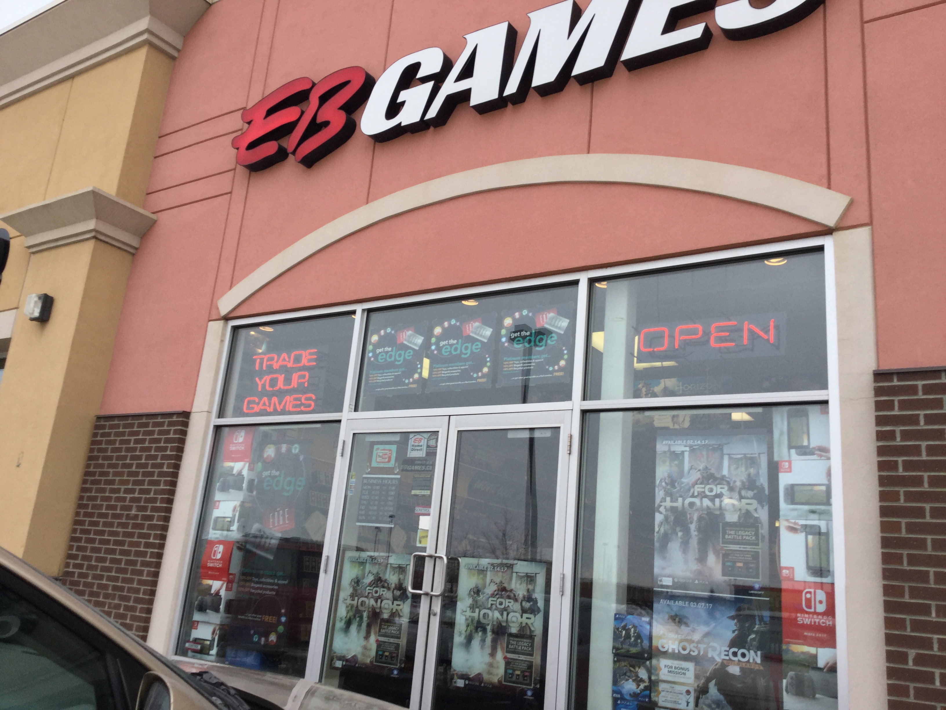 An EB Games store in Edmonton, Alberta in February 2017.